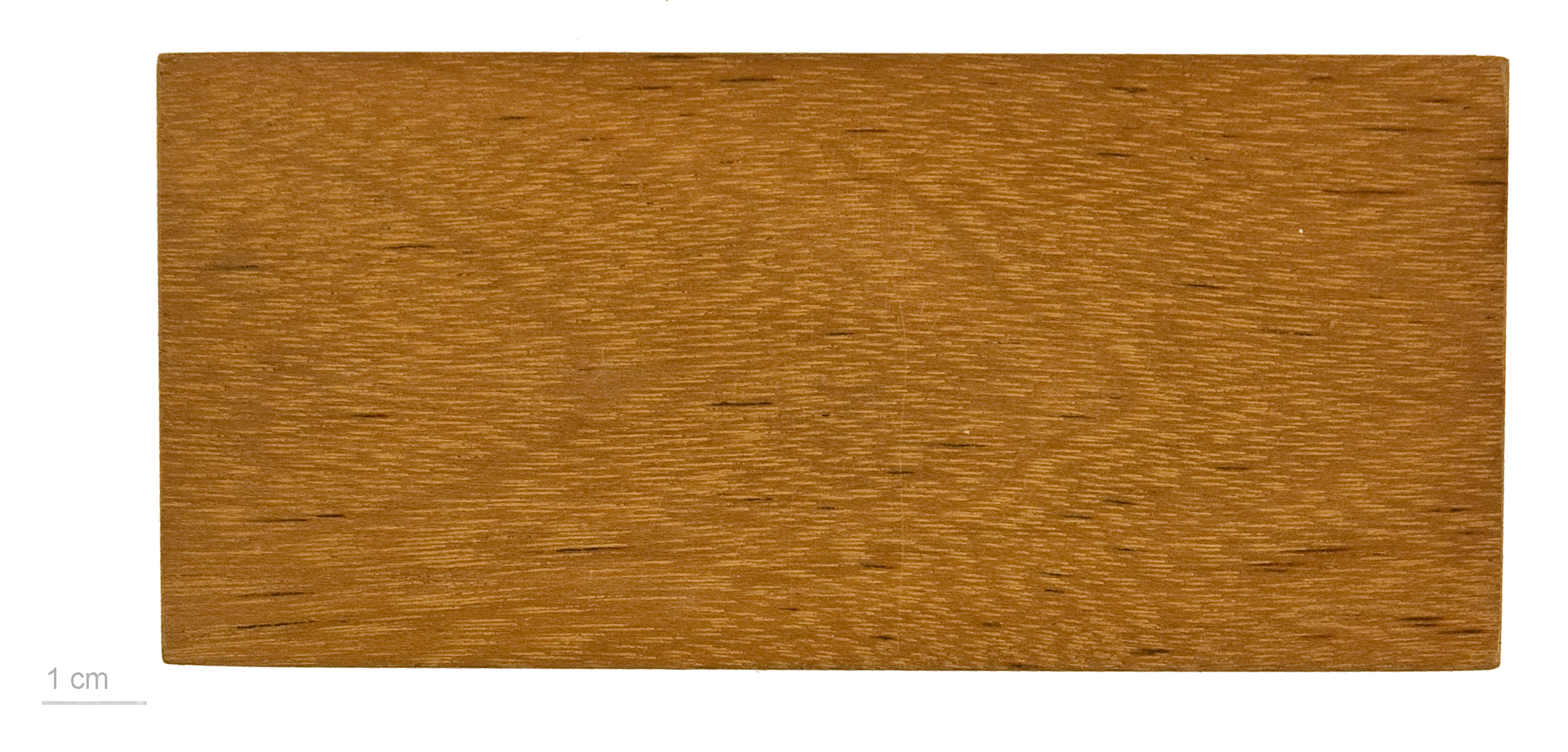 Goupie or Kabukalli , wood